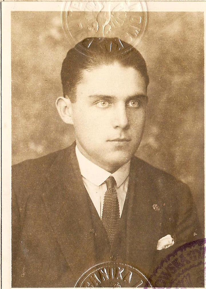 Klemens Stefan Sielecki in 1925, image from his student identity card of Lwow Polytechnic.